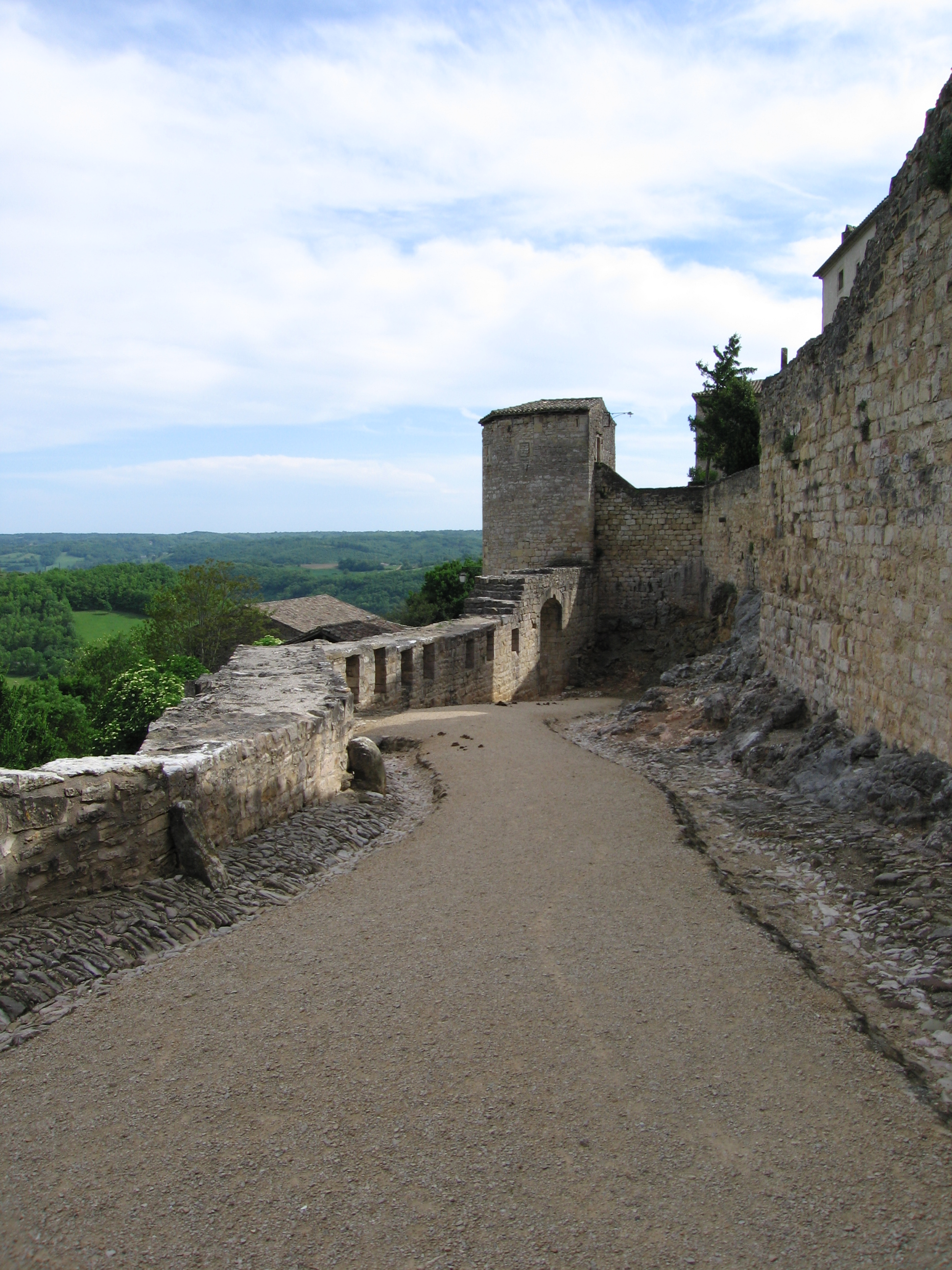 Gate of Irissou, a medieval gate in the city wall of Puycelsi, Tarn, France. The gate is a double defense system (photo taken forward the second gate).